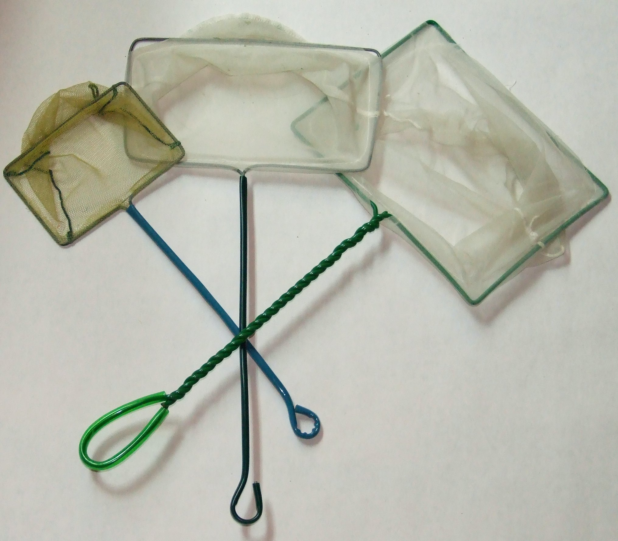 Three hand nets for use in an aquarium.